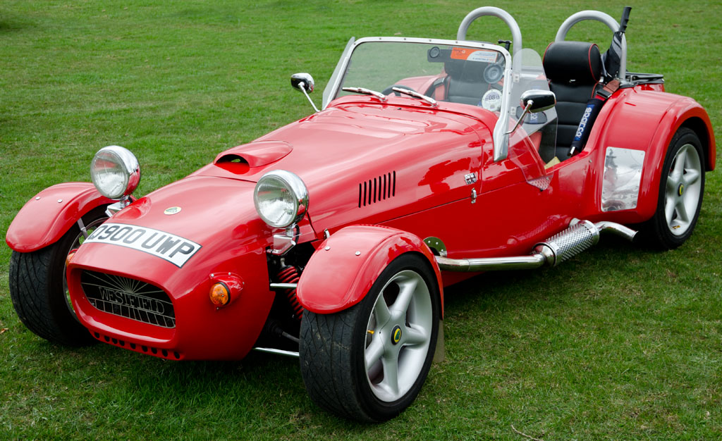 St Asaph Classic Car Show 20/04/2014